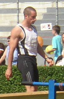 Belgian decathlete François Gourmet moments before start in 110 m hurdles at TNT - Fortuna Meeting in Kladno, June 19, 2008.